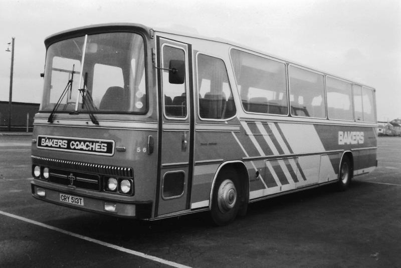 Number 56 in the Baker's of Weston-super-Mare fleet in 1986 was this Caetano-bodied 1979 Bedford YMT with the registration CRY513T. It was photographed in Locking Road Coach park behind Baker's depot in the recently-introduced white and blue livery designed by Ray Stenning.